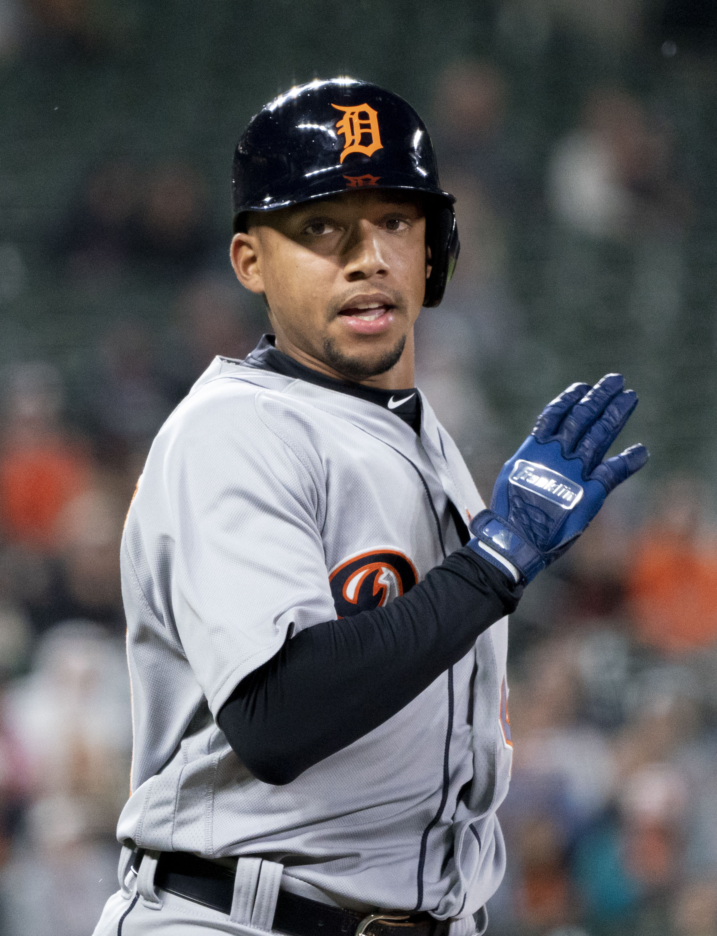 Tigers at Orioles 4/28/18 Dixon Machado, Tigers at Orioles 4/28/18